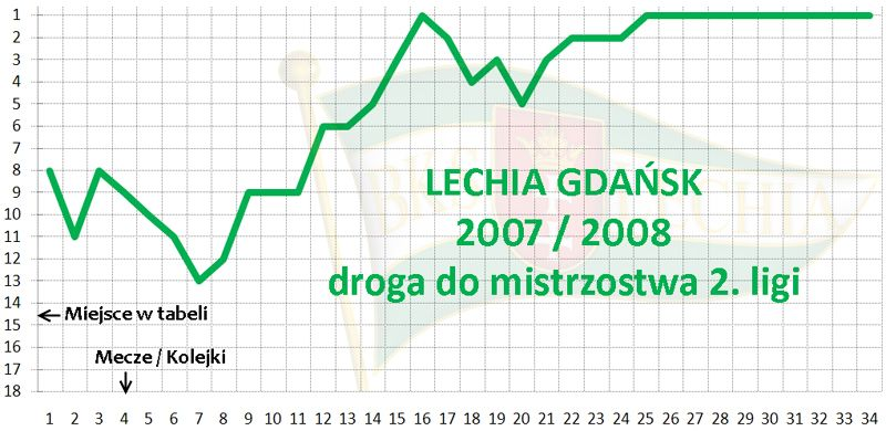 Road to the Ekstraklasa.